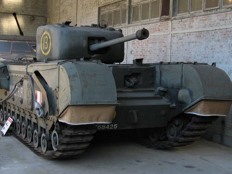 Churchill Mark IV